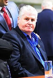 Maryan Plakhetko at PFC CSKA Moscow fans meeting